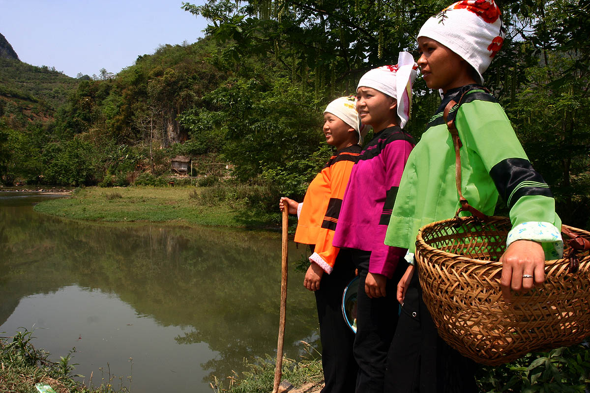 China's ethnic Zhuang people and their costumes, Guangnan County, Yunnan Province.